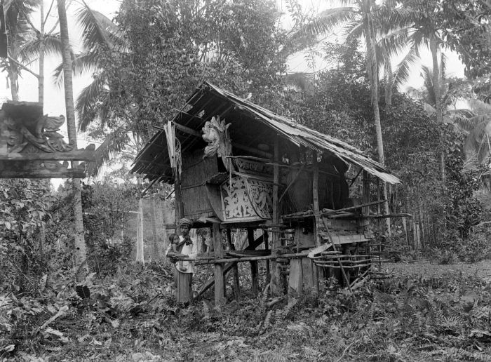 The head of a village in Kutai with a child in front of his father's grave